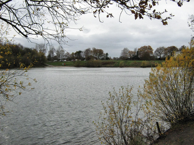 Brereton Heath Lake. In 1959 silica sand, which is used extensively in the glass-making industry and for making metal casting moulds, was discovered on this site and a quarry was dug here. This quarry was producing up to 500 tonnes per day until the pure silica ran out in 1972, and the site was abandoned leaving behind a massive hole that eventually filled with water and this lake was formed. The car park and visitor centre (1361327) can be seen on the far side of the lake. Warning signs exist around the lake and a head-first diver was rendered tetraplegic and without any remedy in the law in the leading legal case of Tomlinson v Congleton Borough Council.